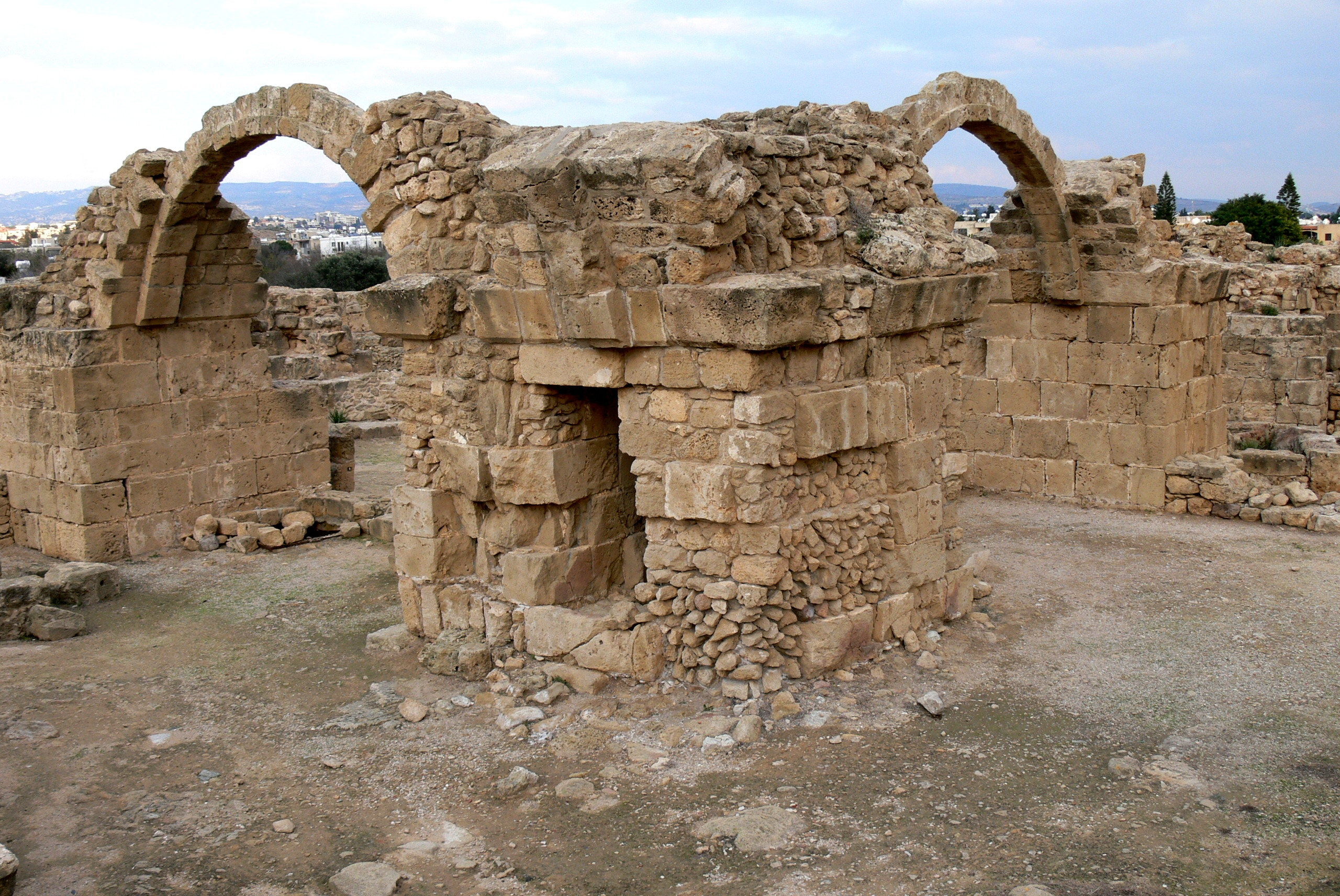 Paphos Archaeological Park. Saranda Kolones castle: Arches.